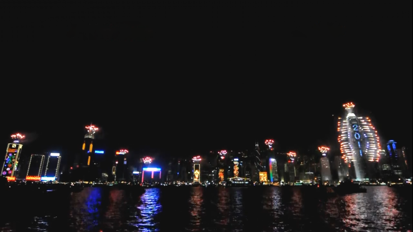 Hong Kong 's New Year Countdown Celebrations 2011